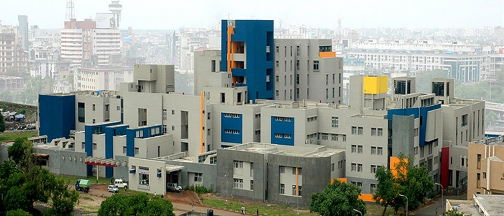 View from top